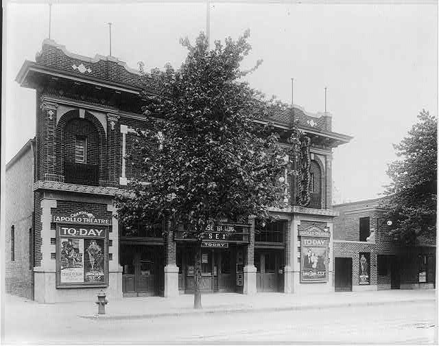 Grandall's Apollo Theater in Washington, D.C., with posters for the film Sex (1920) starring Louise Glaum